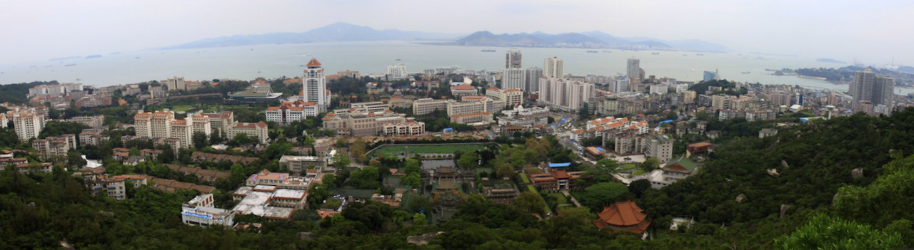 Panoramic of Xiamen University from South Putuo in May 2010.